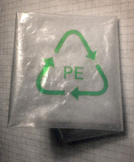 A Little Bag (Or a Sample) of Polyethylene (PE)